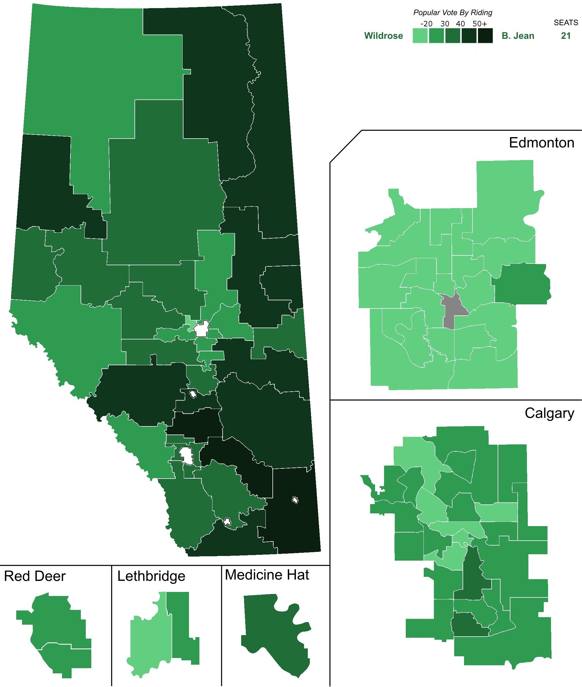 Alberta Provincial Election, 2015 results by riding - Wildrose party strength